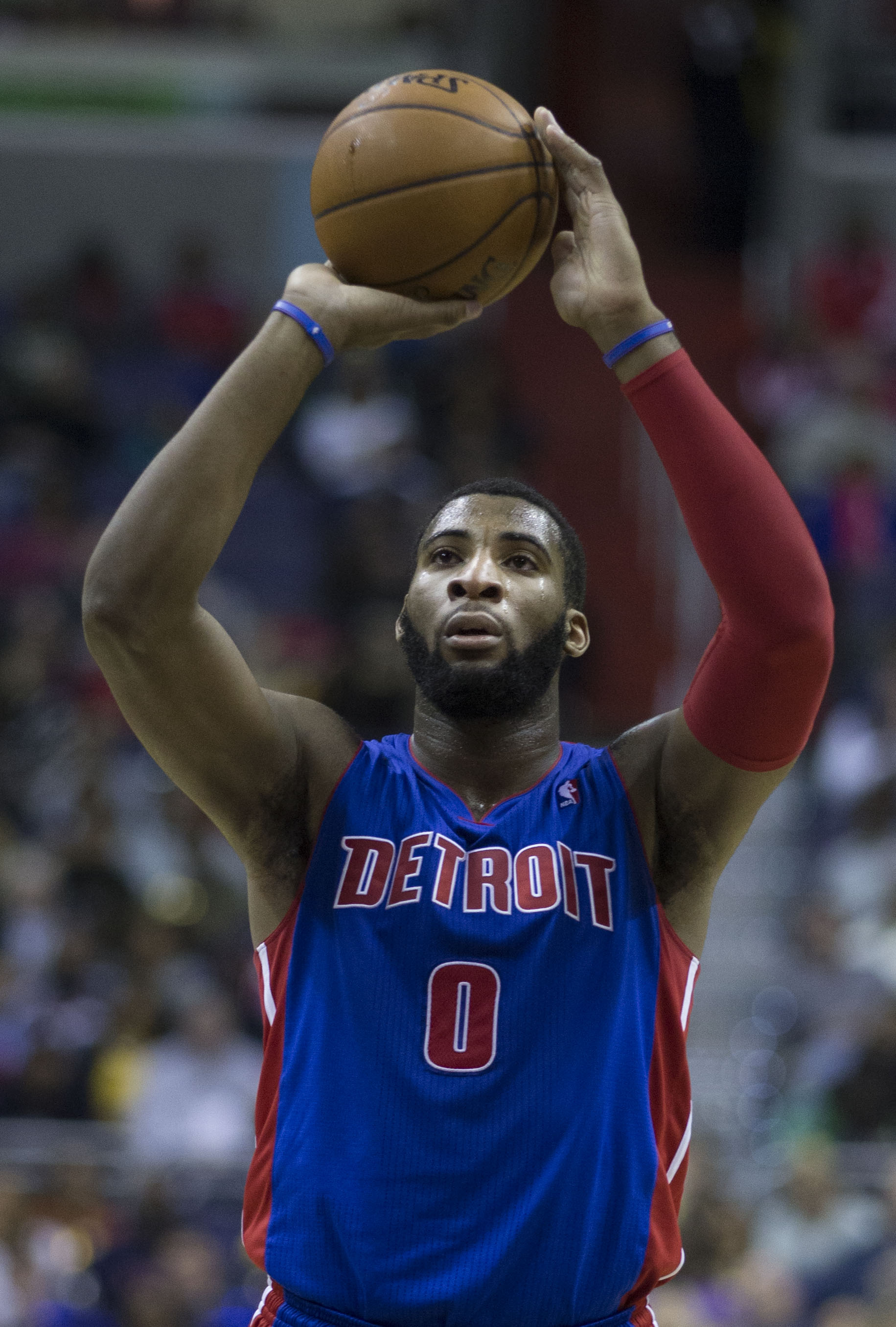 Pistons at Wizards 1/18/14